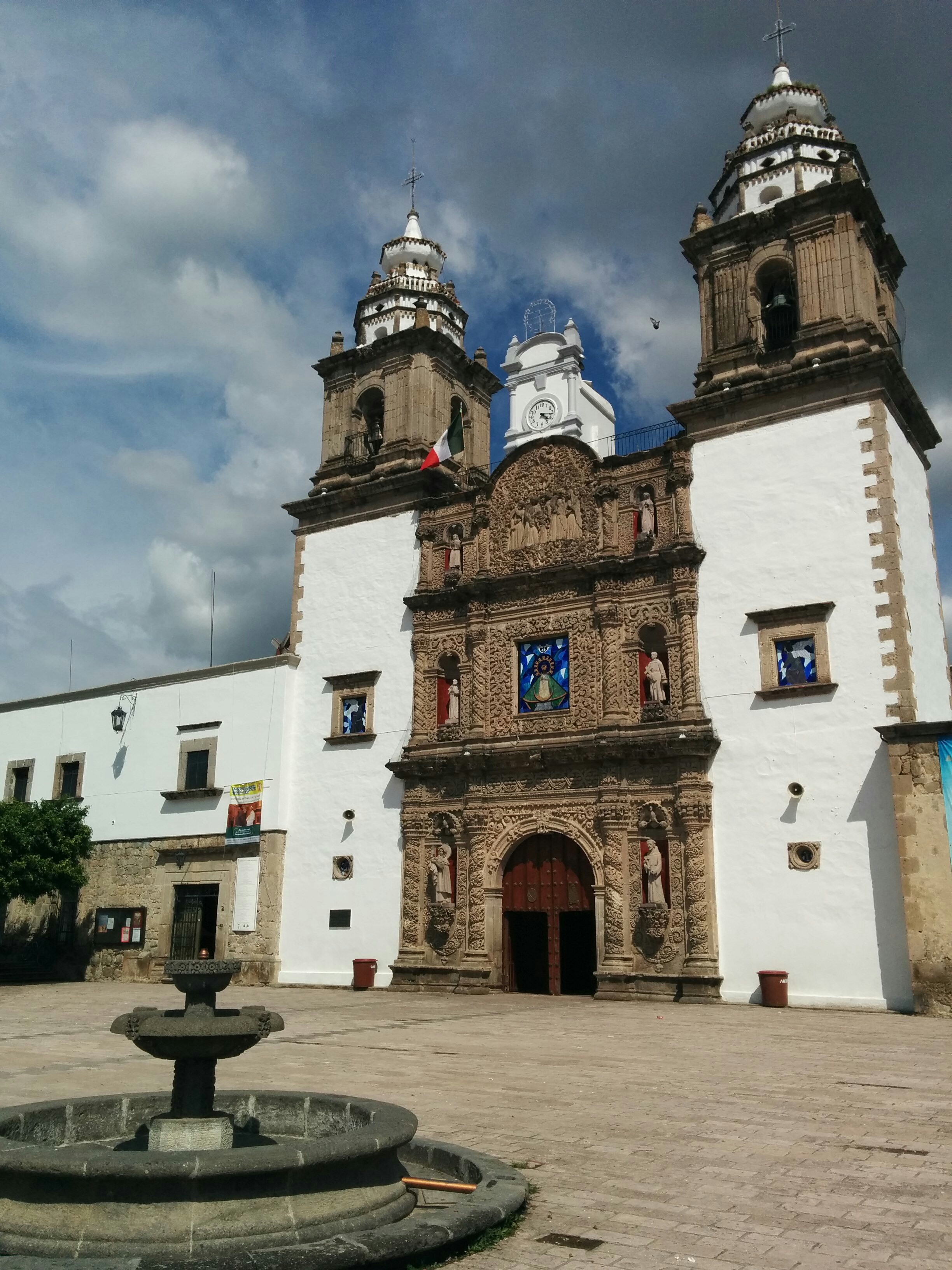 Parish of Santa Anita, Tlaquepaque, Jalisco, Mexico